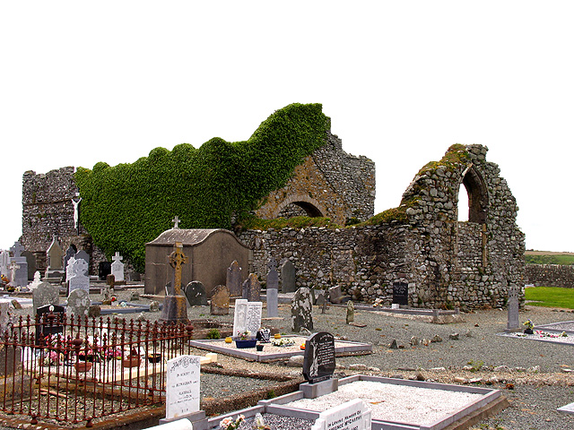 Derelict Church and Burial Ground at Bannow. This derelict church still serves as a cemetery and has a curious grave of a self crowned Prince of the Saltees Island. There are at least three infants buried here, reflecting the high infant mortality rate in southern Ireland in the 1940s.